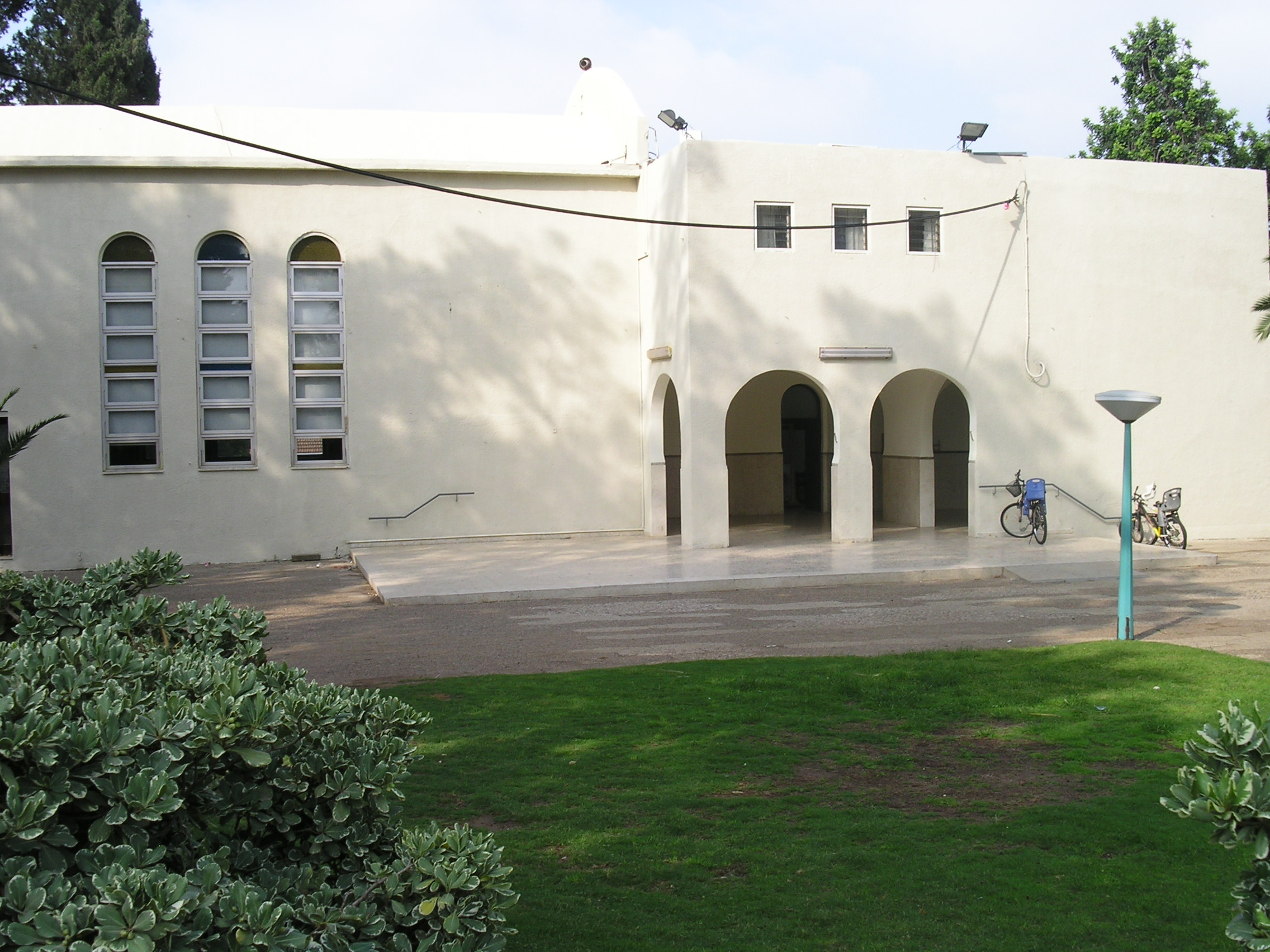 The synagogue of Kefar Haroe from east.